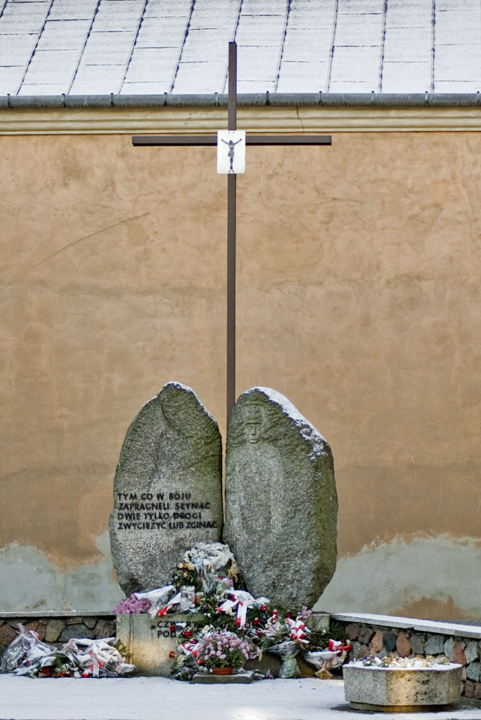 City of Ostroleka (Poland)